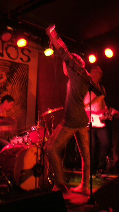 The Total Drop on stage in New York City